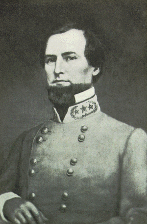 Confederate Army general Lawrence O'Bryan Branch